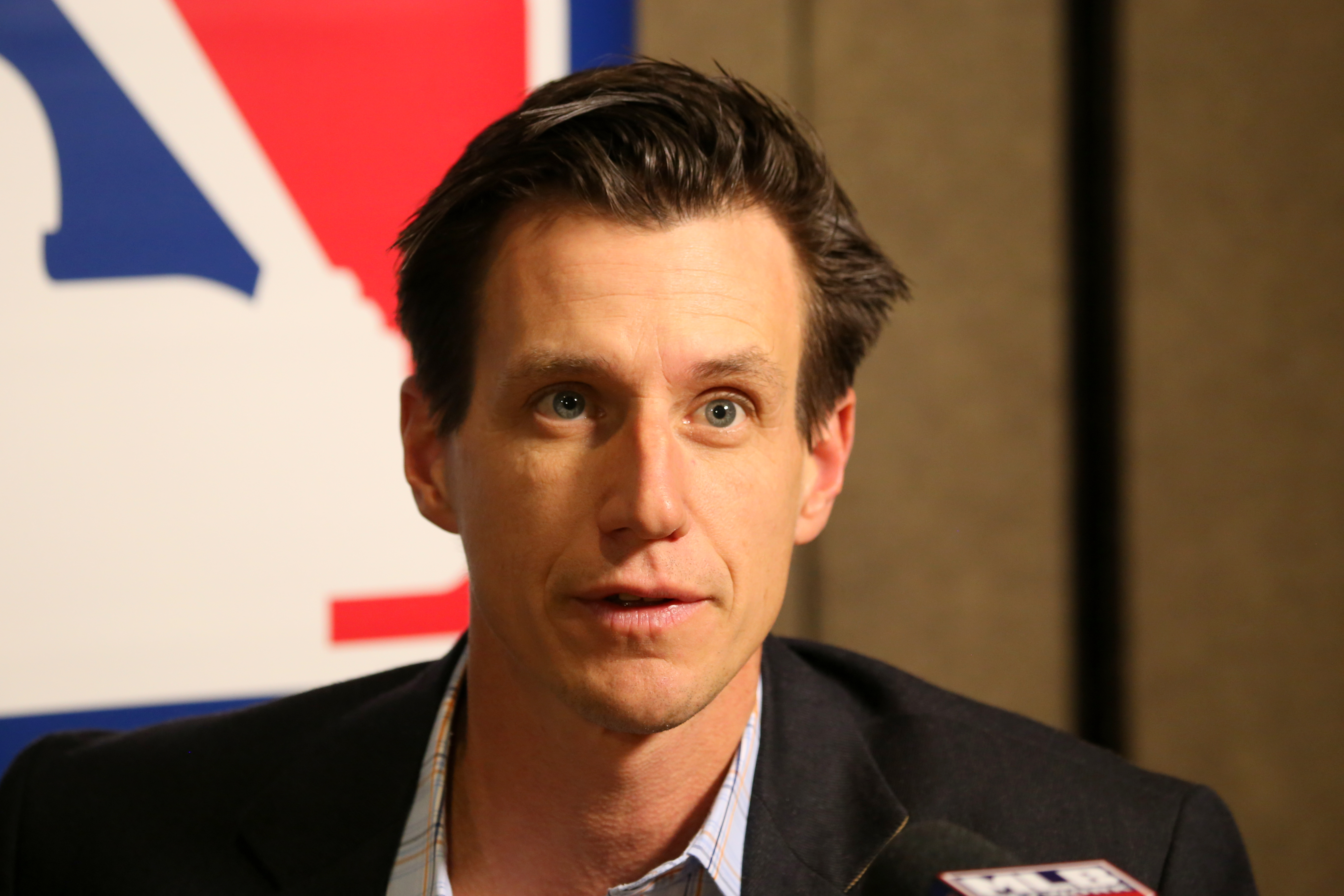 Brewers manager Craig Counsell talks to reporters at the #WinterMeetings.